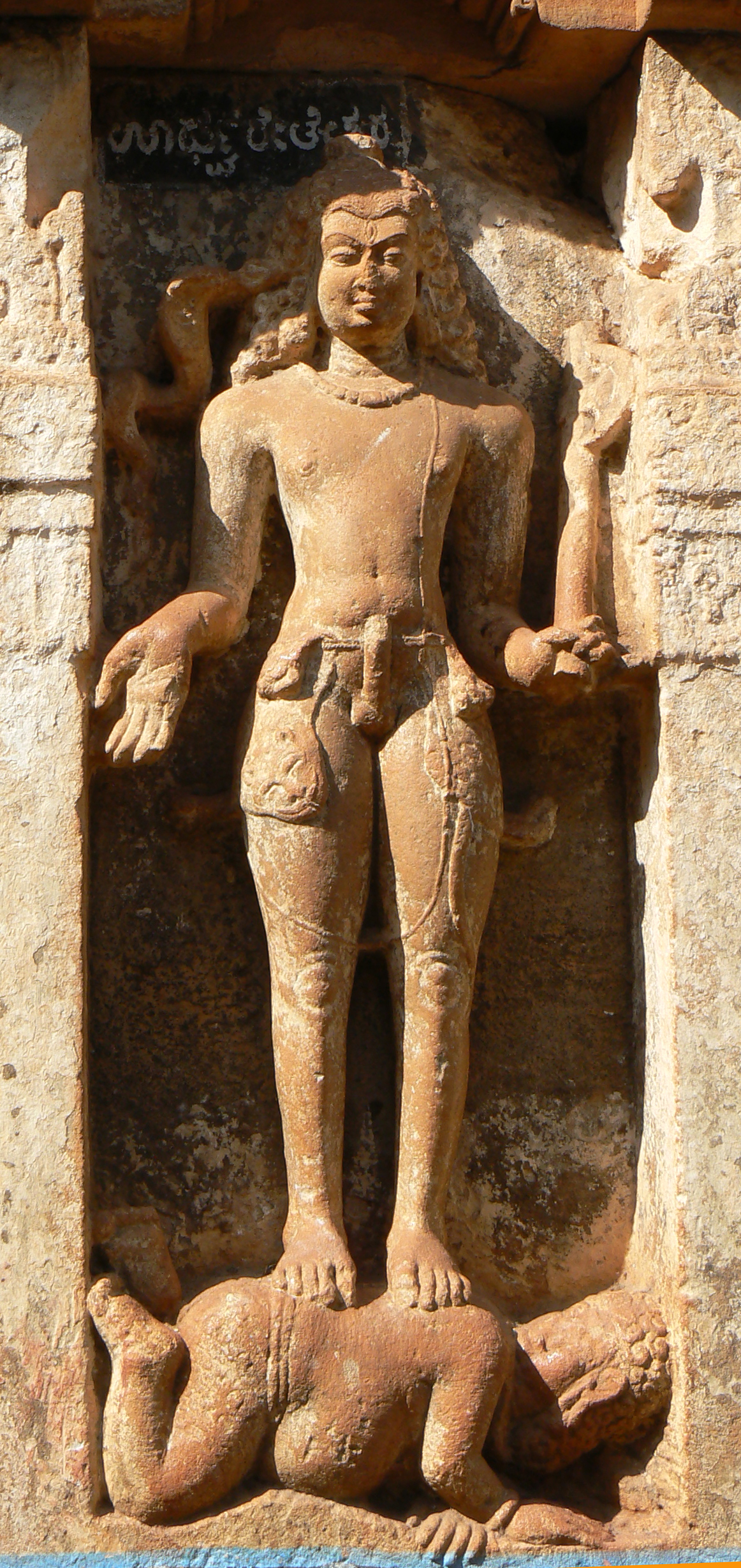 Lakulisha holding an axe, sandstone, Sangameshvara Temple at Mahakuta, Karnataka, Early Chalukya dynasty, 7th century CE.